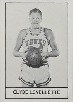 An image of St. Louis Hawks player Clyde Levellette.